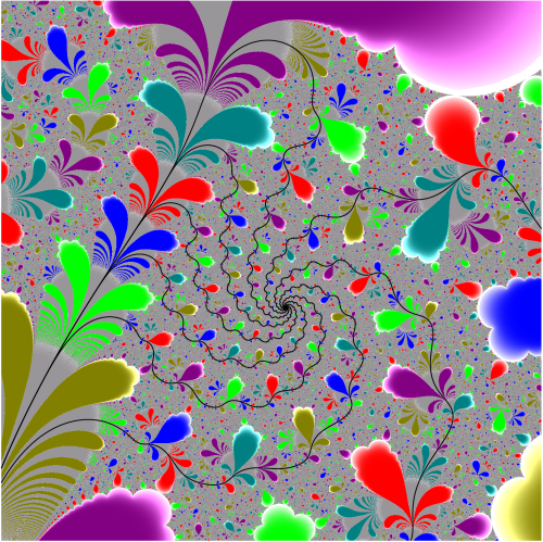 This is a detail of the parameter space of the complex exponential family f(z)=exp(z)+c. The parameter in the middle of the picture is postsingularly preperiodic (PSP). Eight parameter rays landing at this parameter are drawn in black. The bifurcation locus is grey, while hyperbolic components are shown as colored regions. This file (in the resolution provided) is licensed under the creative commons attribution license - that is, you may use it as you like, as long as you acknowledge me.